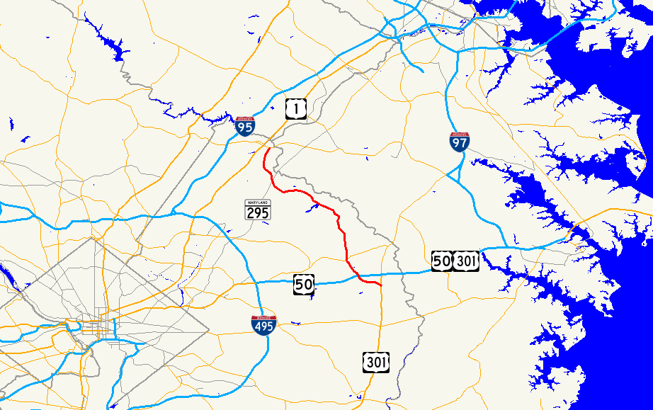 Map of Maryland Route 197